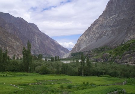 hassanabad, chorbat, baltistan2